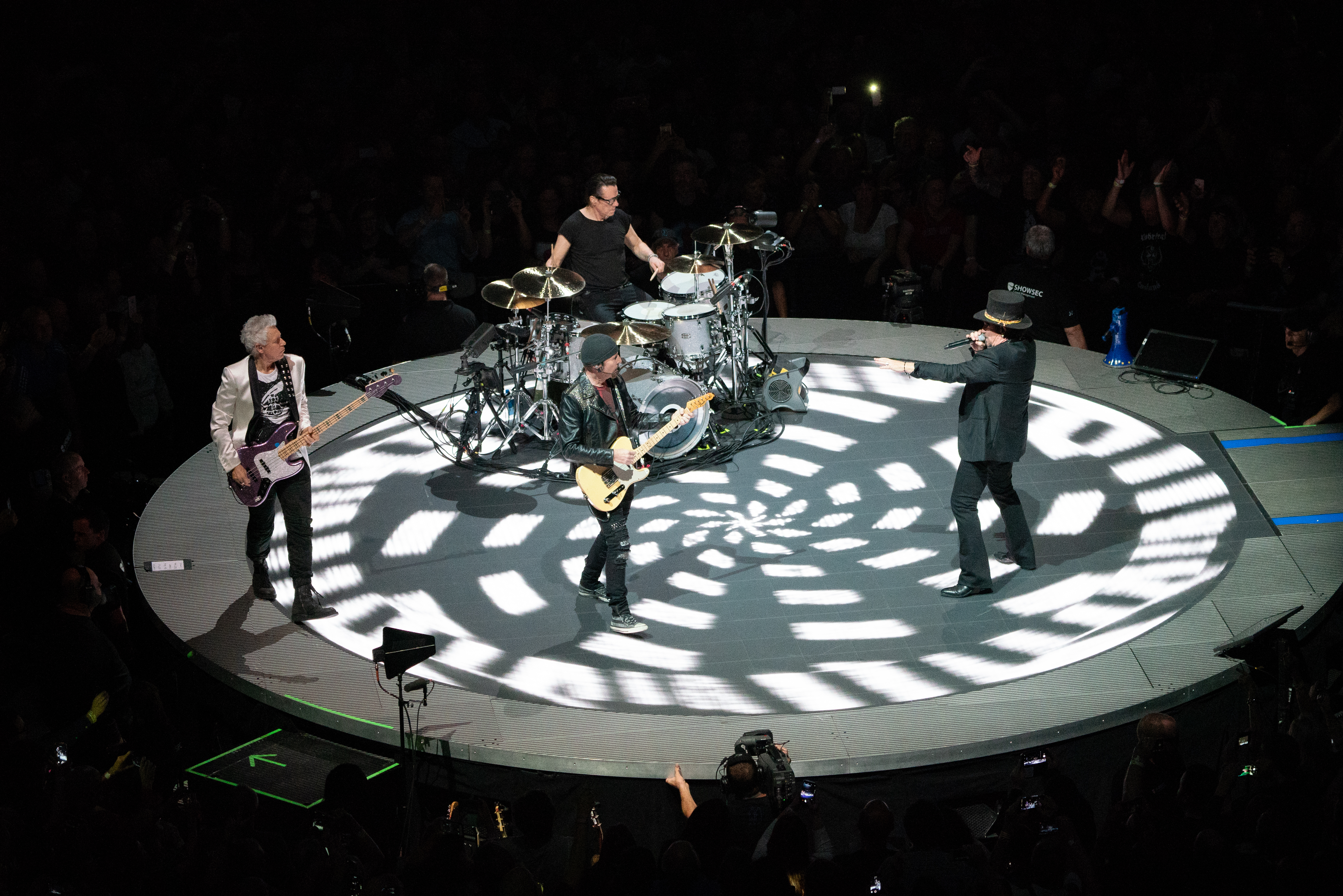 U2 performing on the B-stage, which features LED displays built in, during the Experience + Innocence Tour at Manchester Arena in Manchester, England, UK on October 19, 2018